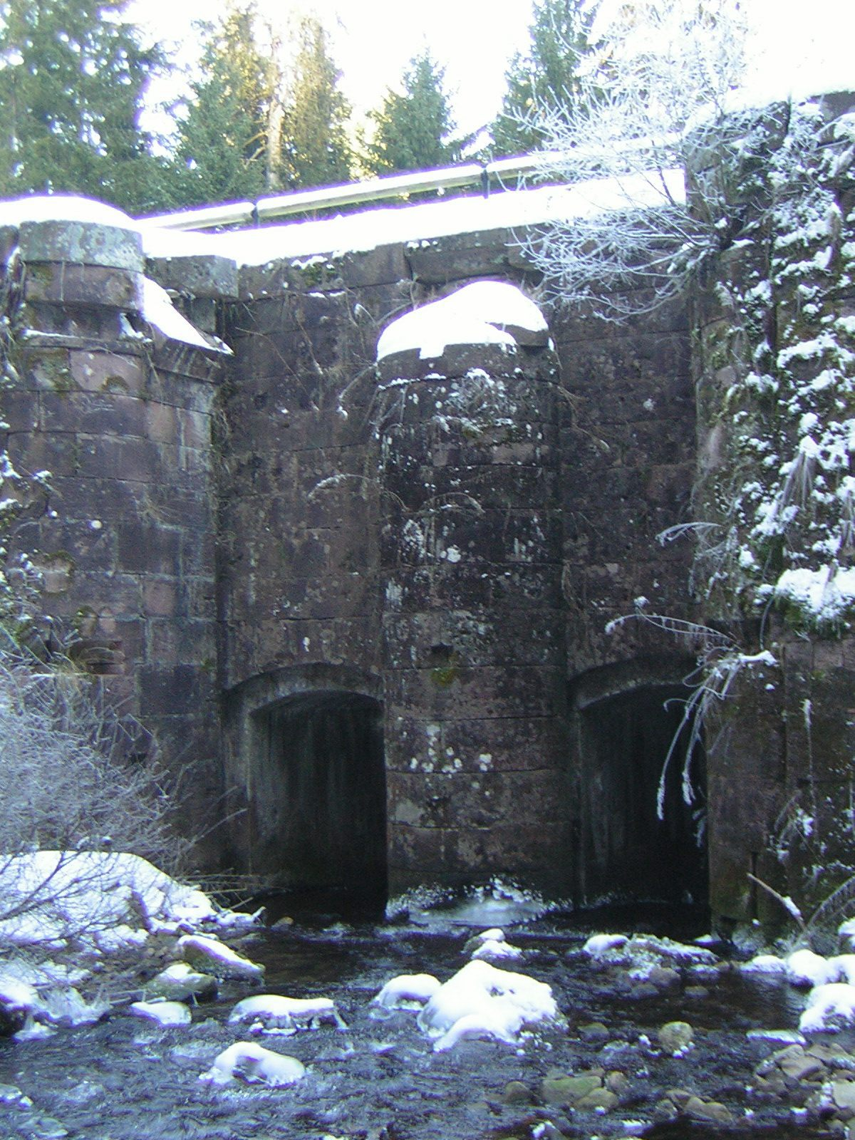 This image has been taken by Wikipedia-ce in january of 2006 and it is public domain. It shows the so called "Schwallung" of the Schwarzenbach near Herrenwies in the black forest, viewed from the upper side.